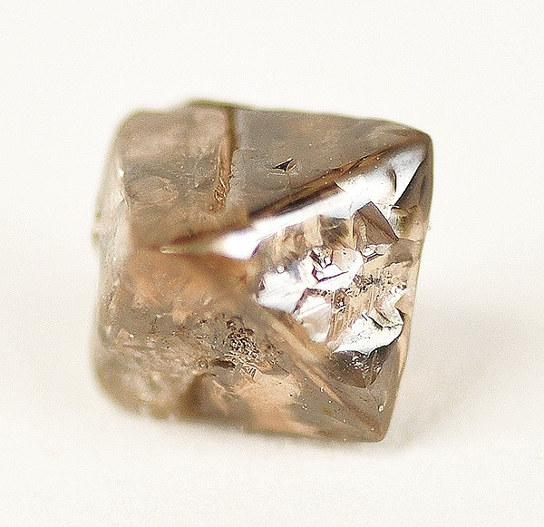 Diamond Locality: Argyle mine (Argyle AK1 pipe), Lake Argyle area, Kimberley, Western Australia, Australia Size: thumbnail, 0.9 x 0.8 x 0.8 cm Diamond 3.6 carats. Very gemmy with slightly fancy color